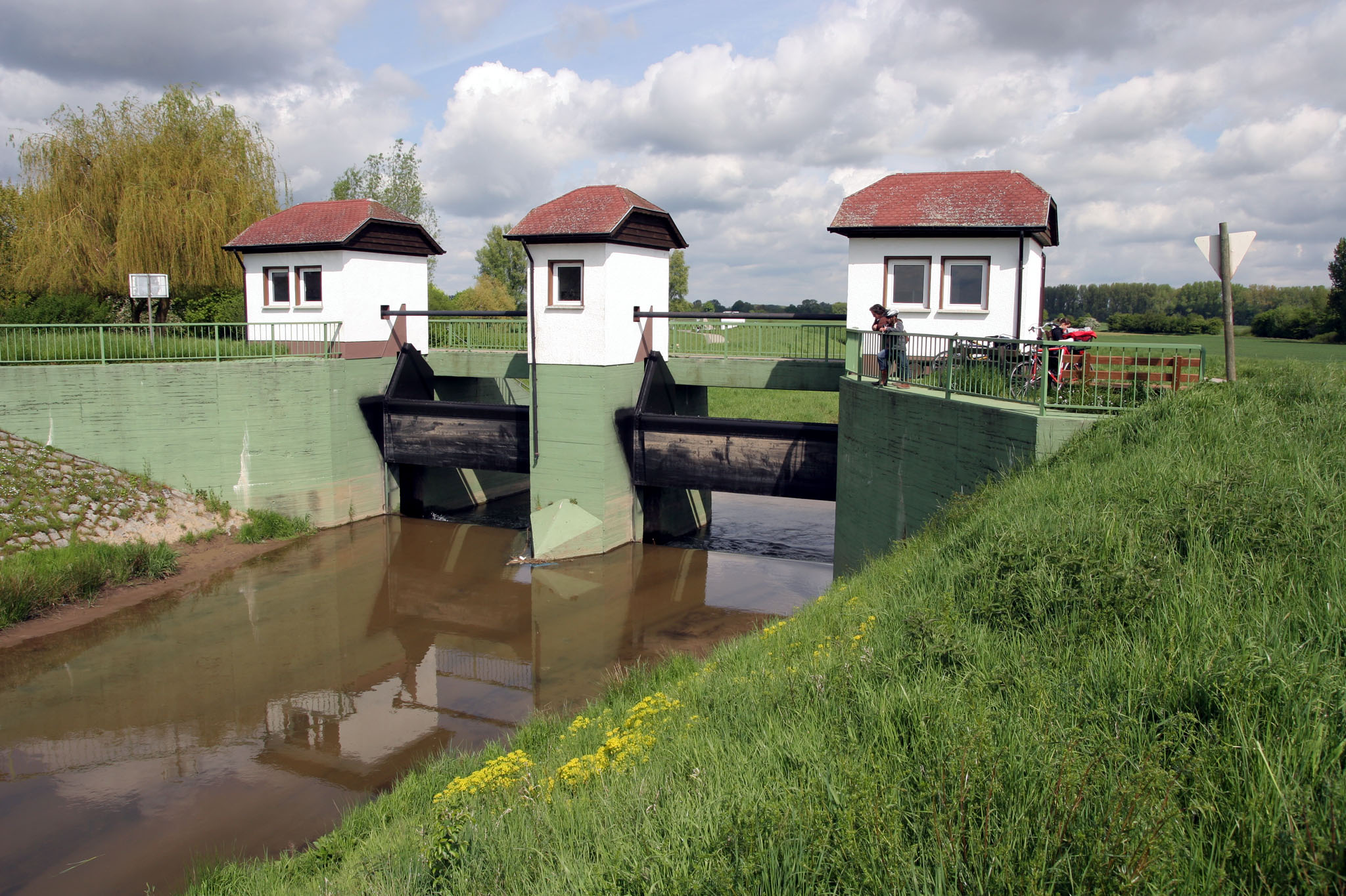 The nature protection area Weschnitzinsel, close to Lorsch (Hesse, Germany)